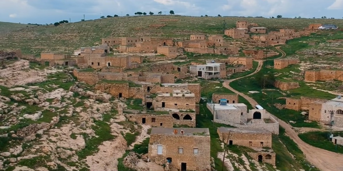 Yazidi village Kharabya in Turkey